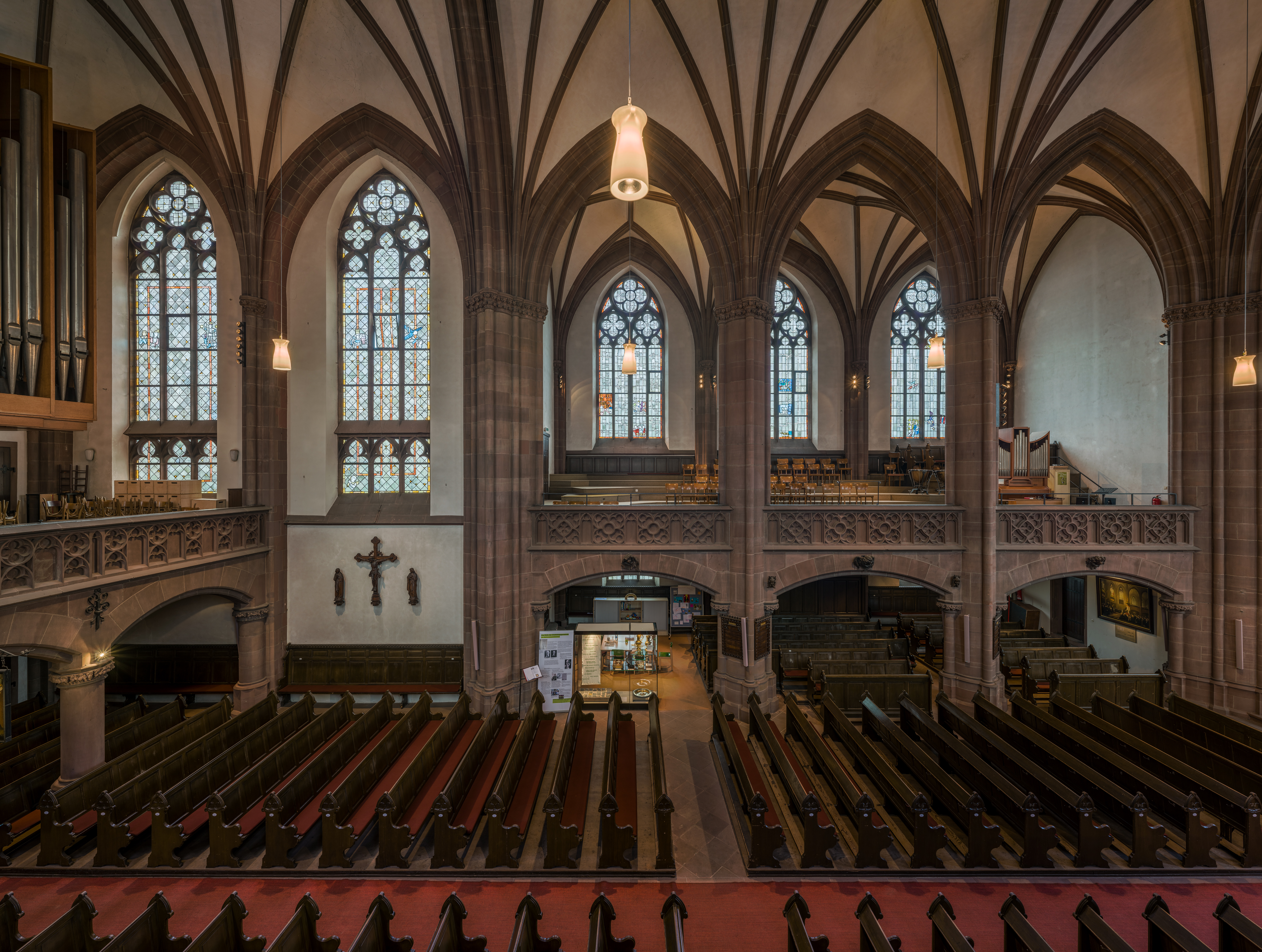 The interior of the Dreikönigskirche, Frankfurt, as seen from the transept